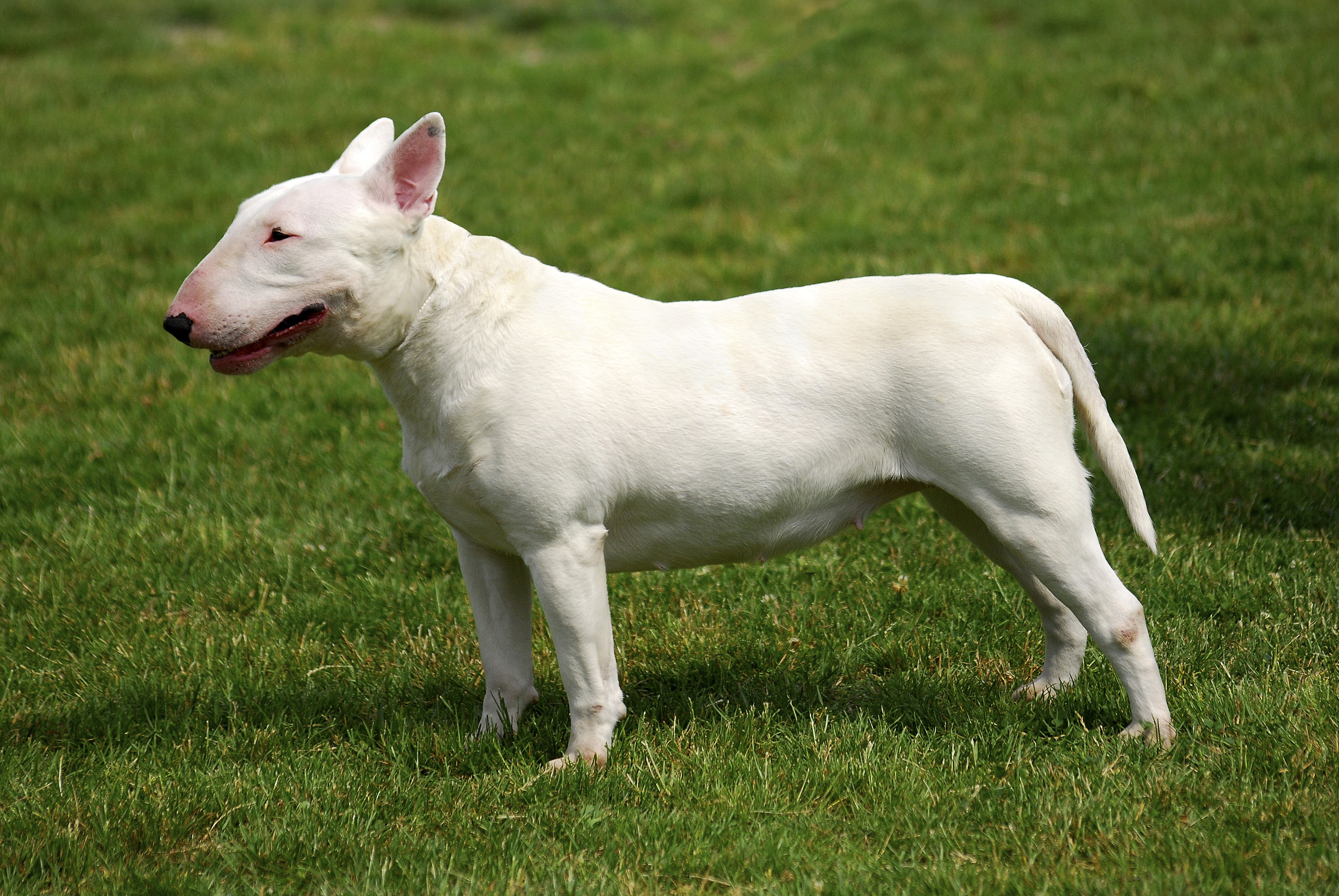 Bull terier